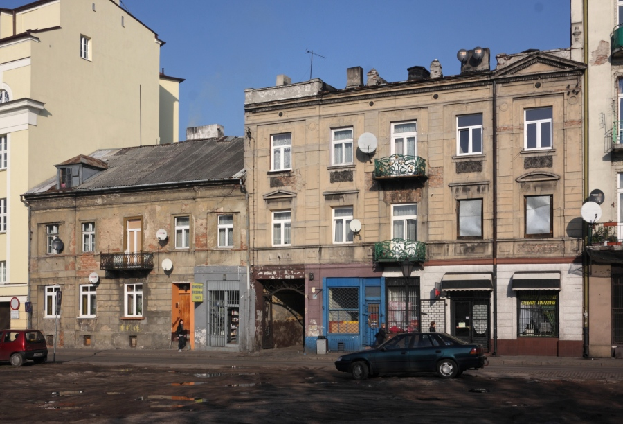 Włocławek, houses at 26 and 28 Cyganka Str.